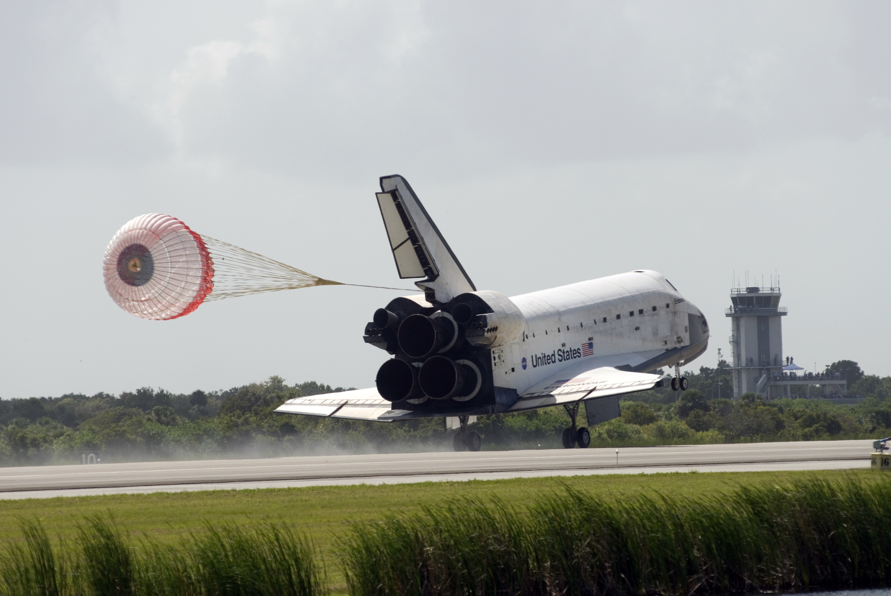 CAPE CANAVERAL, Fla. – The drogue chute slows space shuttle Endeavour on Runway 15 at NASA's Kennedy Space Center in Florida to complete the 16-day, 6.5-million mile journey on the STS-127 mission to the International Space Station. Endeavour landed on orbit 248. Main gear touchdown was at 10:48:08 a.m. EDT. Nose gear touchdown was at 10:48:21 a.m. and wheels stop was at 10:49:13 a.m. Endeavour delivered the Japanese Experiment Module's Exposed Facility and the Experiment Logistics Module-Exposed Section to the International Space Station. The mission was the 29th flight to the station, the 23rd flight of Endeavour and the 127th in the Space Shuttle Program, as well as the 71st landing at Kennedy.